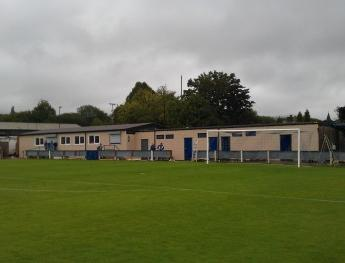 the Surrey Street new clubhouse built in the offseason of 2011